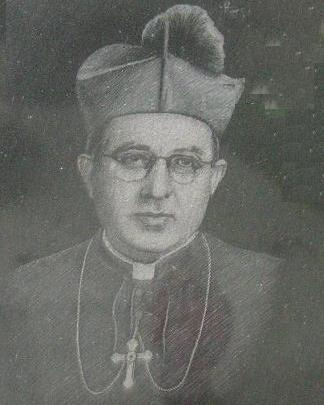 Bishop of the Polish National Catholic Church, Joseph Padewski, photo tombstones, Polish Catholic Church cemetery in Warsaw (Poland).